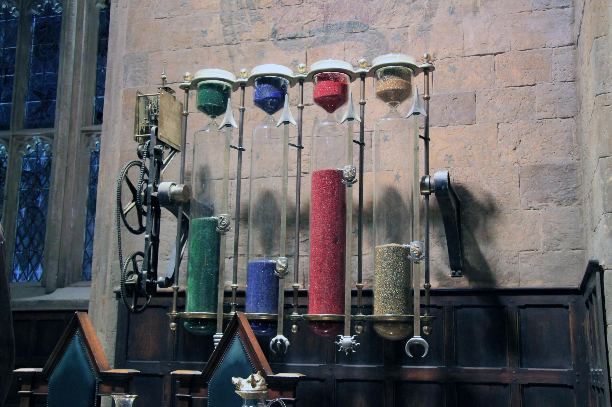 Warner Bros. Studio Tour London: The Making of Harry Potter.